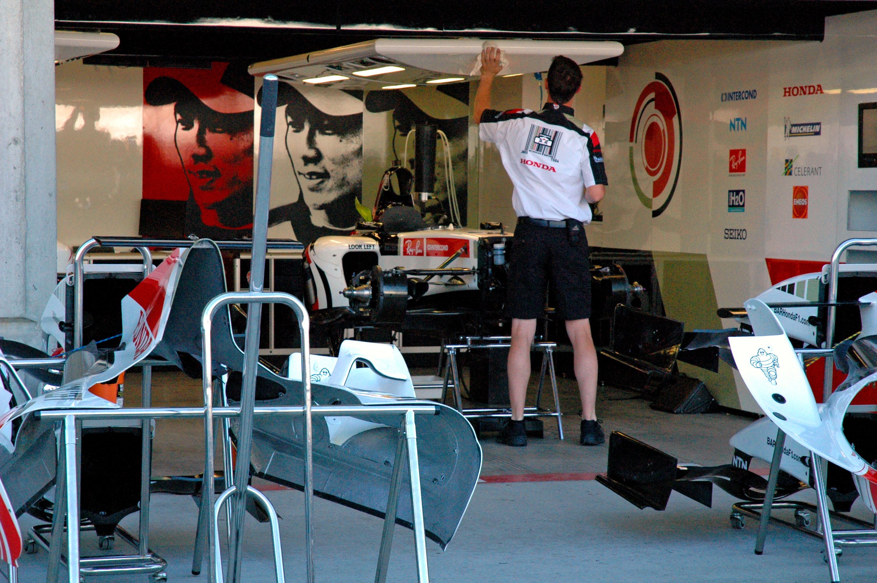 The British American Racing garage at the 2005 United States Grand Prix